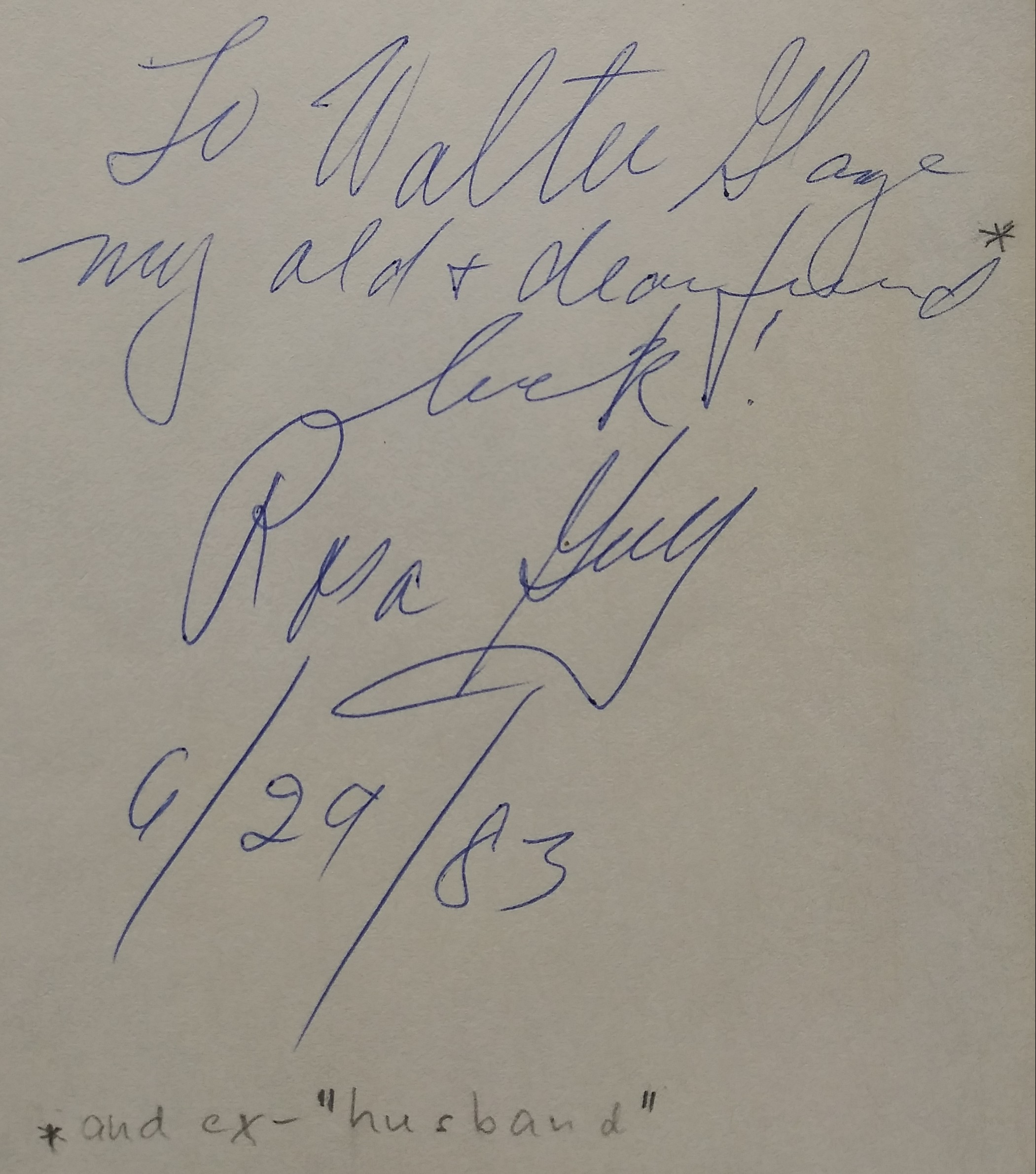 Rosa Guy's inscription in ink on the flyleaf of a copy of her novel A Measure of Time: 'To Walter Gaye my old and dear friend luck! Rosa Guy 6/29/83' An asterisk has been added in pencil and a corresponding pencilled footnote below in a different handwriting says '* and ex- "husband"'